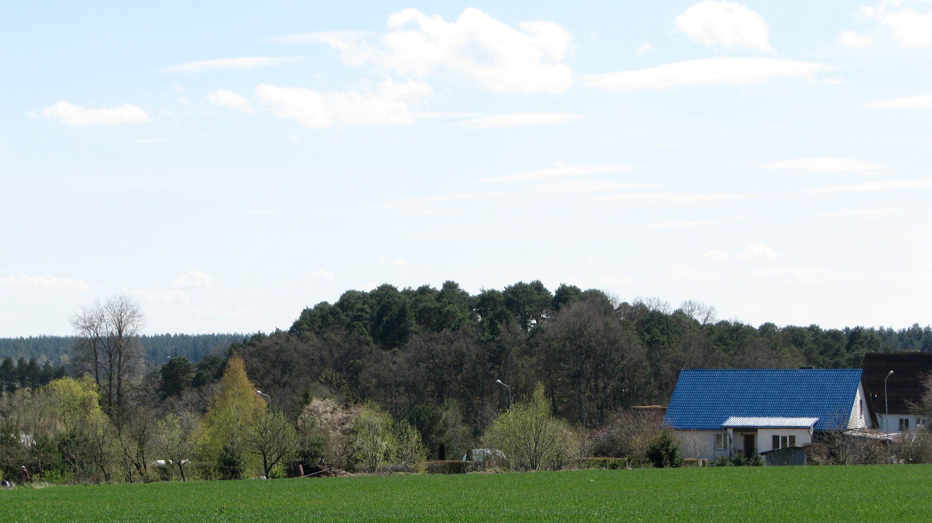 Tukums hillfort, Tukums , Latvia